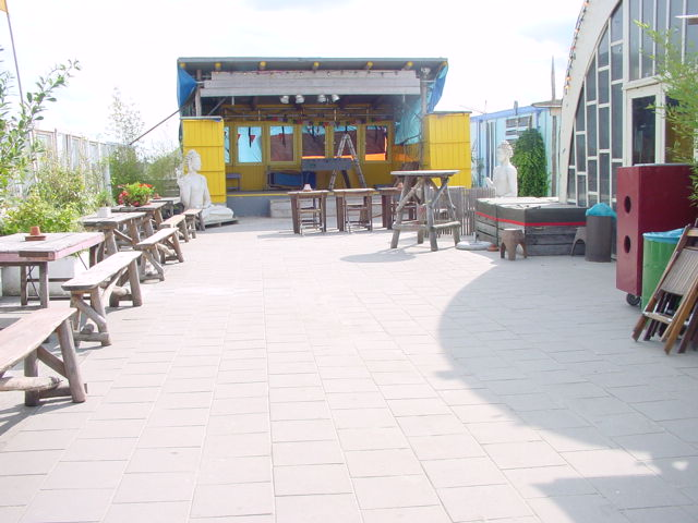 Blijburg op IJburg